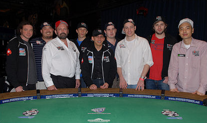 The 2008 World Series of Poker Table Final